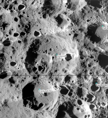 Cockcroft lunar crater - Apollo Foot Lunar Orbiter image from USGS.